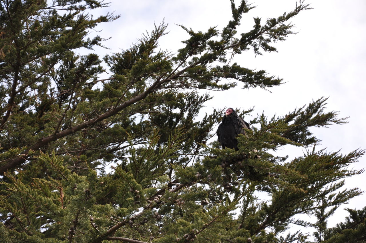 Turkey Vulture (Cathartes aura) perched on a tree in a garden of a house in Stanley, Falkland Islands.